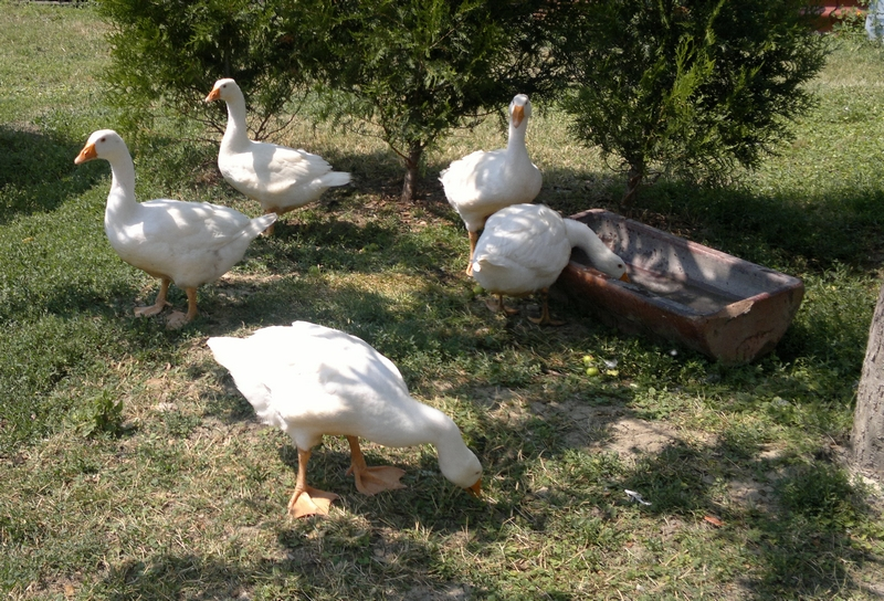 Domestic geese